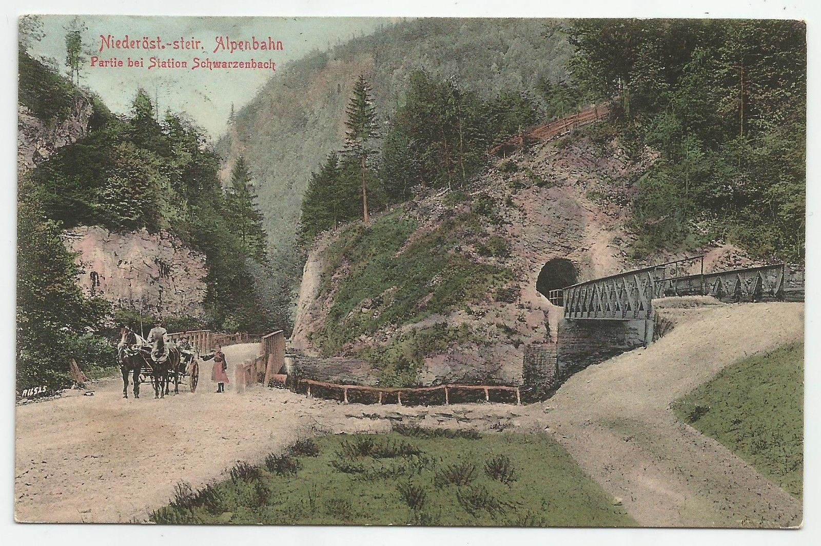 1907 Post cars of street and Mariazellerbahn at Gillus in Frankenfels, Austria